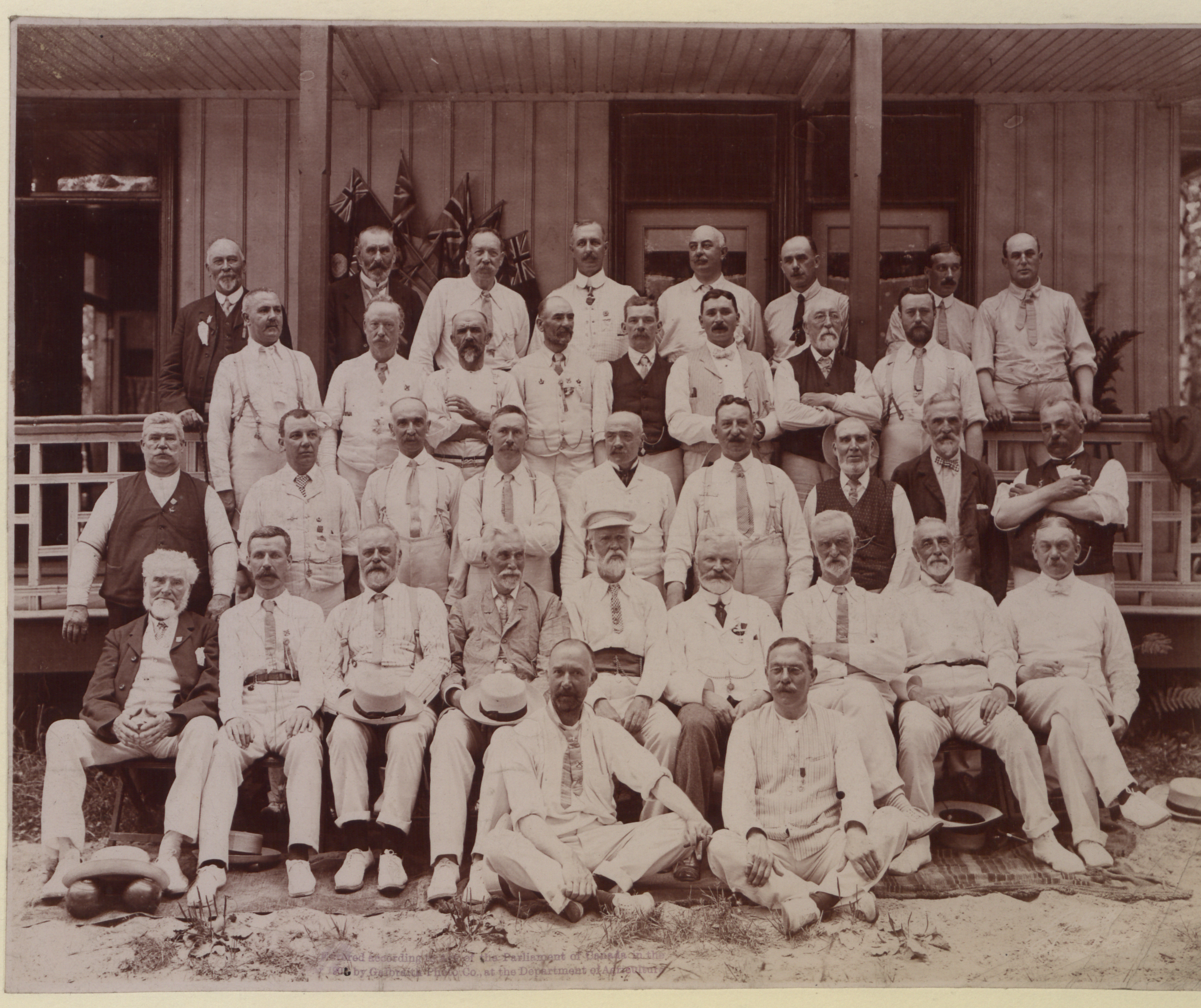 British bowlers.